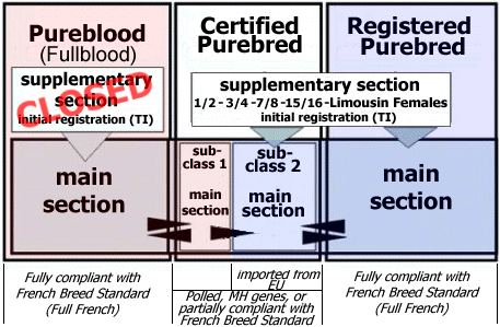 Schematic of French Limousin Herd Book for period July 2008 and later